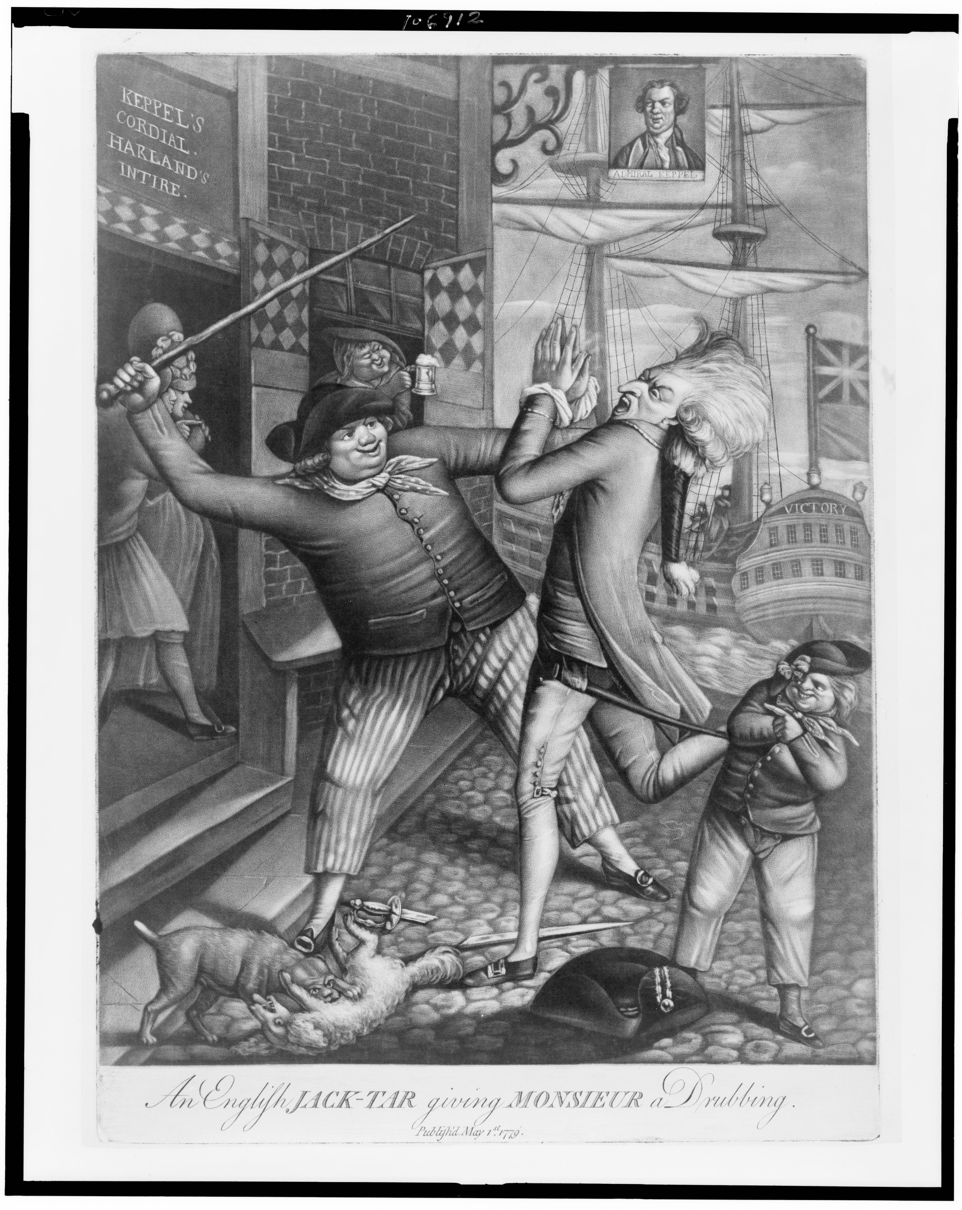 Title: An English jack-tar giving monsieur a drubbing Abstract: Cartoon showing English sailor beating French nobleman with walking stick while dog attacks the man's poodle; sign above pub door reads, "Keppel's cordial. Harland's intire"; portrait of Admiral Keppel is the sign for the pub. British war ship "Victory" in background. Physical description: 1 print : mezzotint ; 35.8 x 26.3 cm (sheet) Notes: Forms part of: British cartoon Prints collection (Library of Congress).